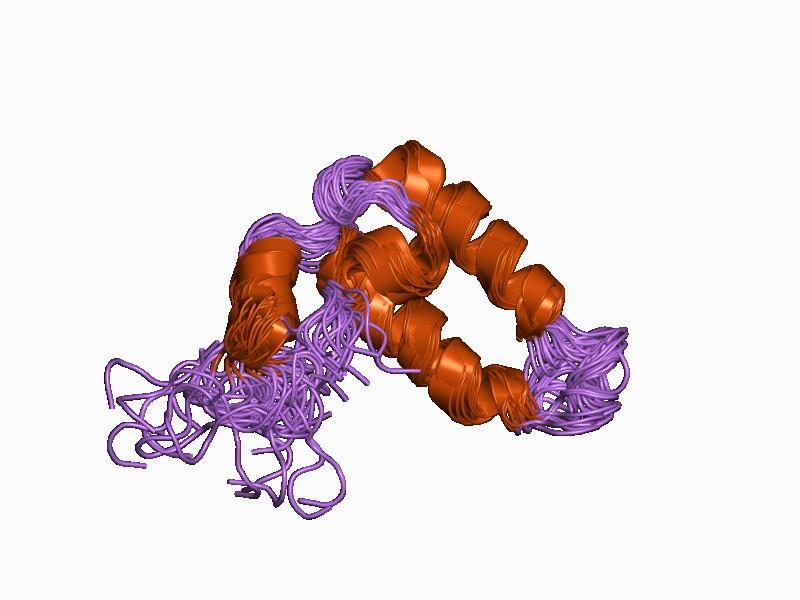 Cartoon representation of the molecular structure of protein registered with 1bq0 code.